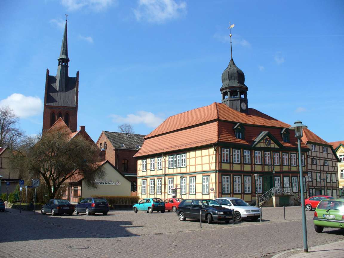 Northern Germany, Grabow (Meckl.), Rathaus/town hall